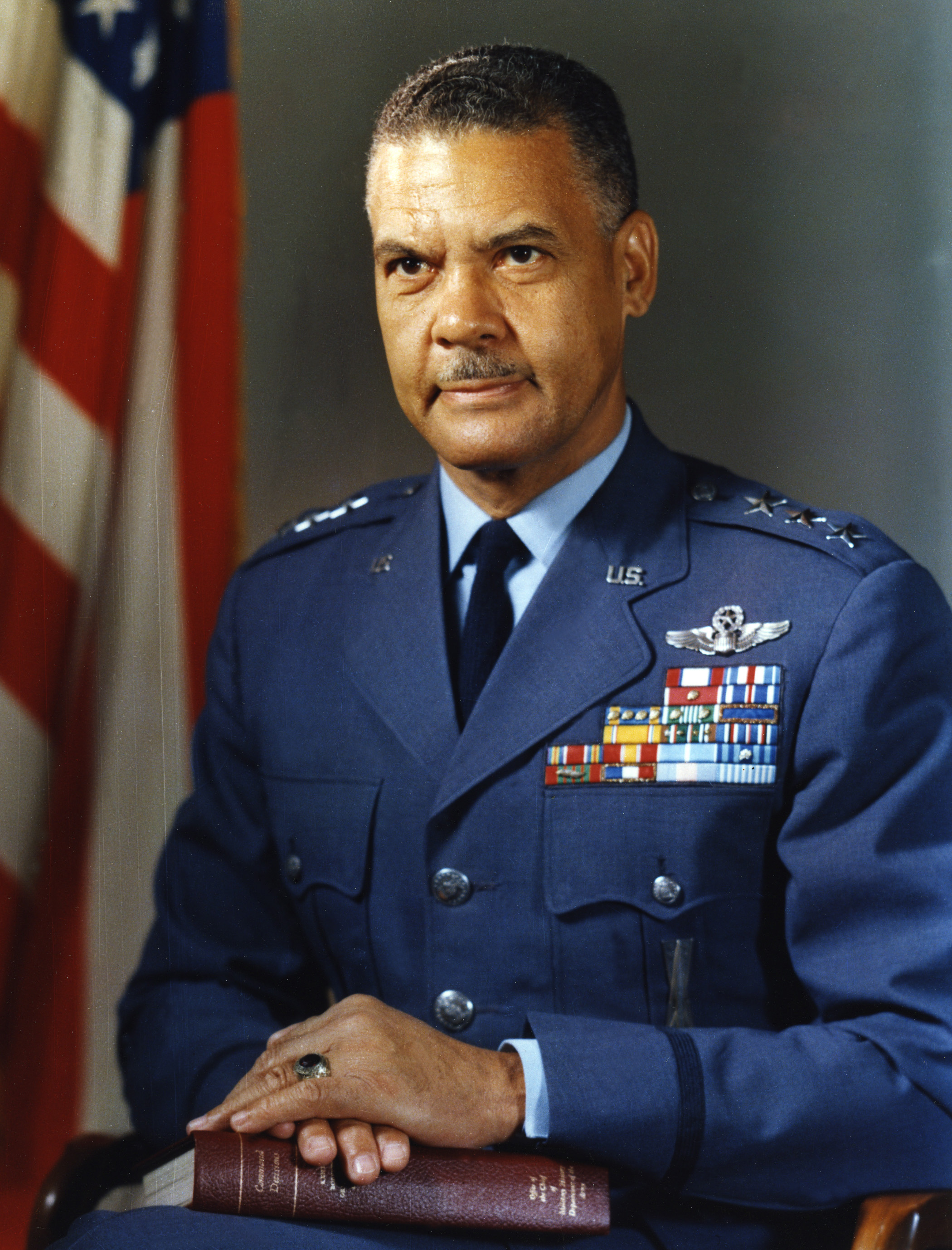 from [1]. General Benjamin O. Davis Jr. Benjamin O. Davis Jr., an aviation pioneer, is one of the most famous Tuskegee Airmen of World War II.